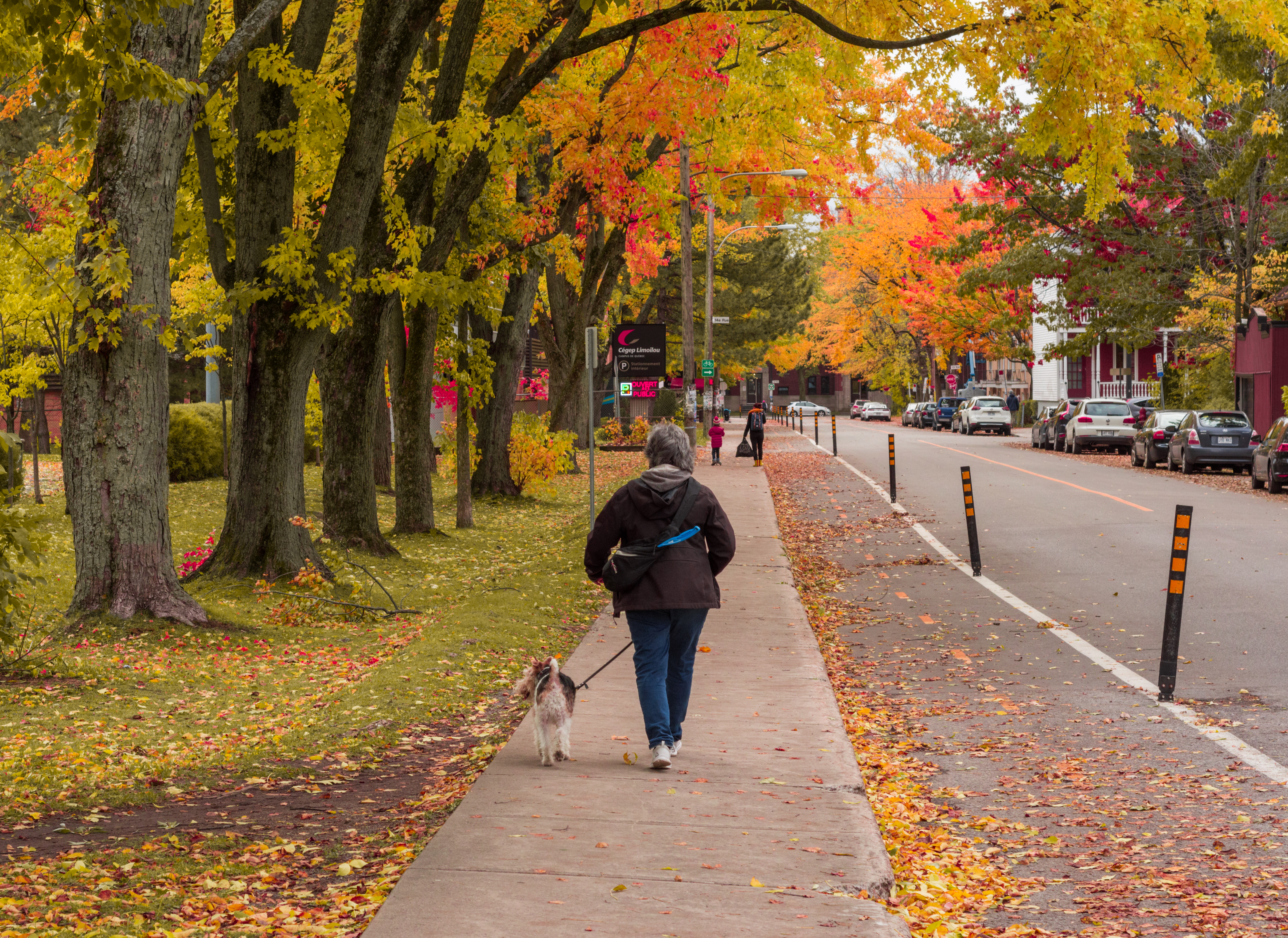 Old woman walking with her dog, Vieux Limoilou, Québec city